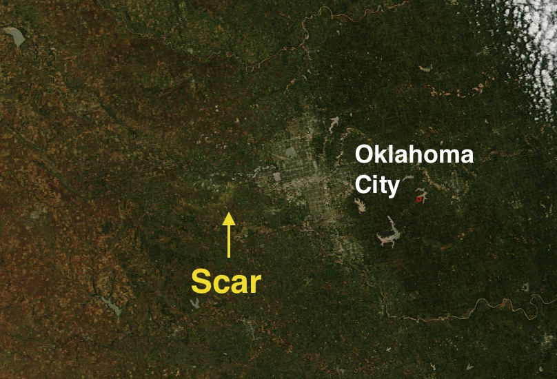 Satellite image of Oklahoma City depicting the ground scar left behind by the May 31, 2013 El Reno tornado